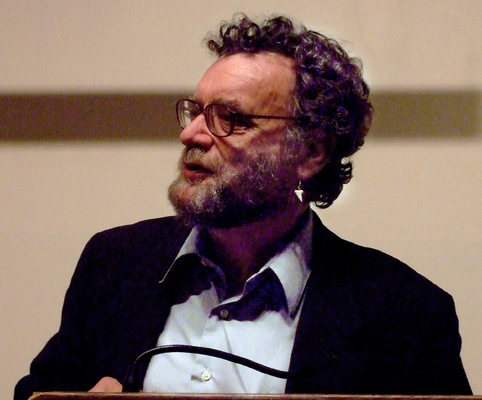 Michael Swanwick, Avram Davidson Tribute South Street Seaport 2007-11-06